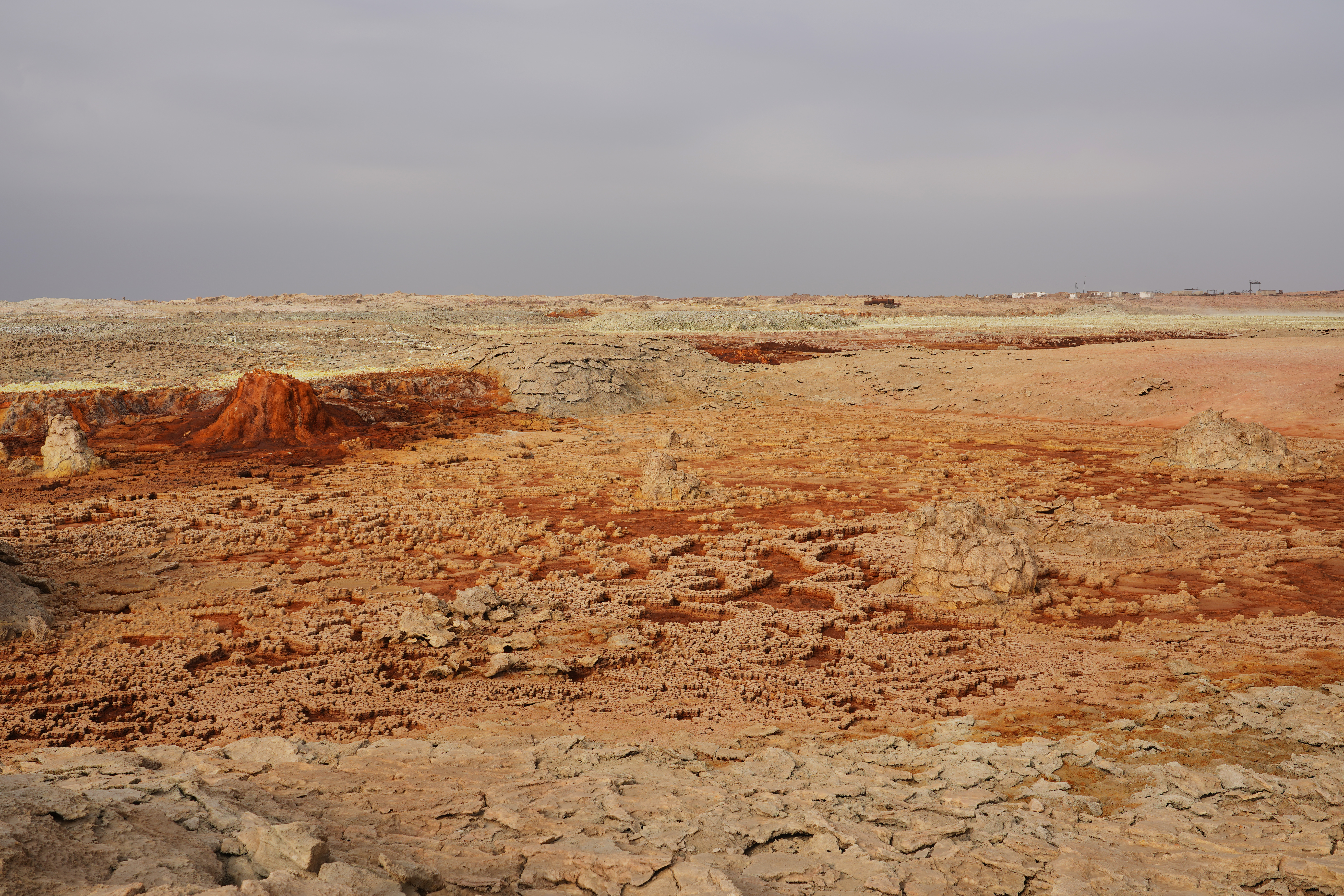 Landscape at Dallol volcano, Afar Region, Ethiopia